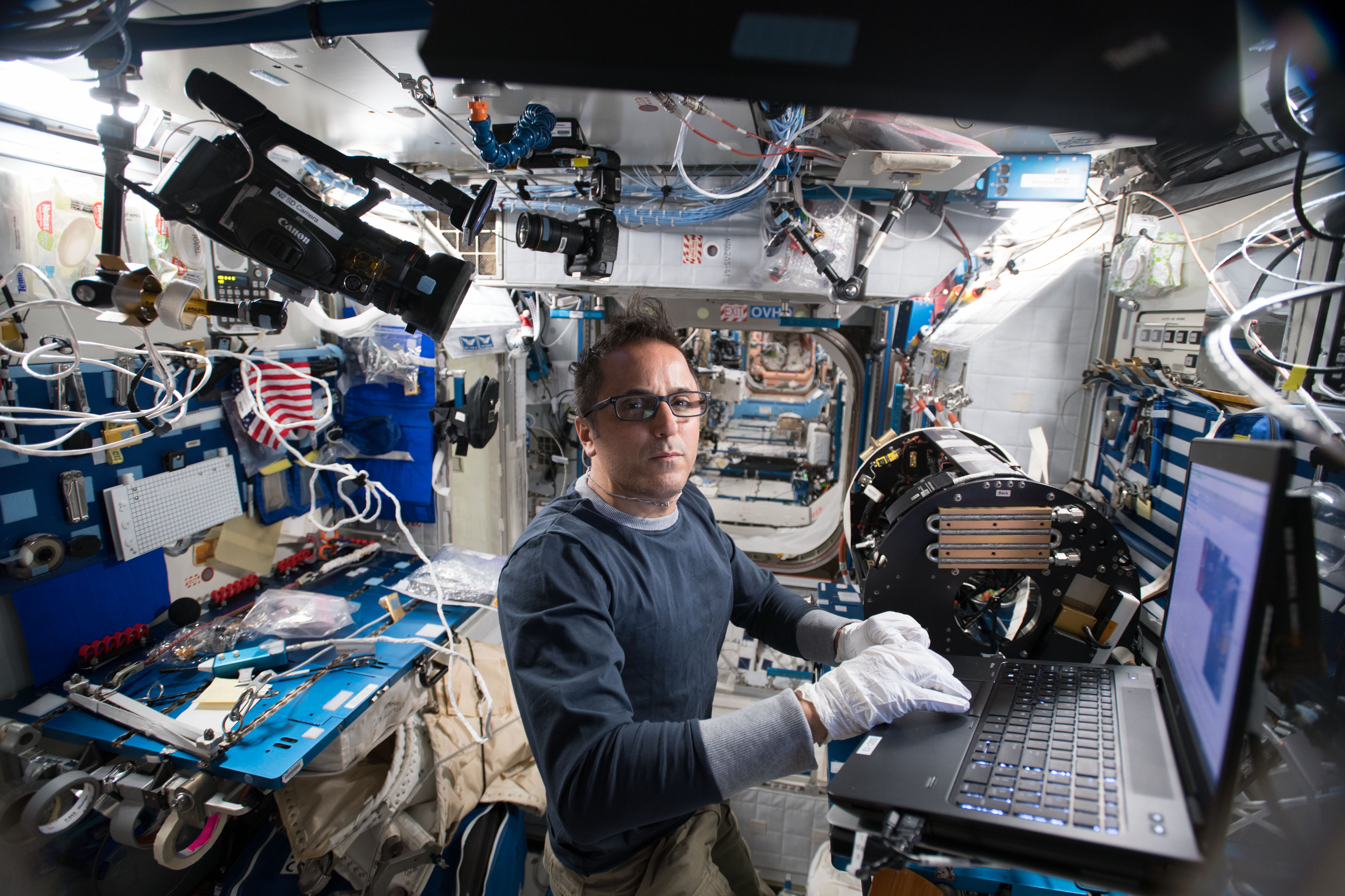 Astronaut Joe Acaba works on wire connections and other maintenance tasks inside Combustion Integrated Rack gear.